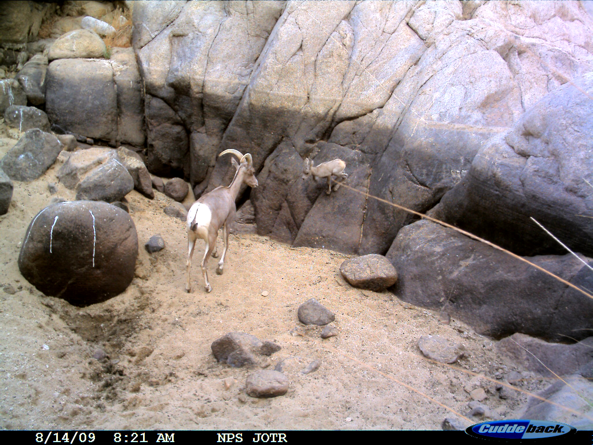 Desert bighorn sheep lamb playing, Joshua Tree National Park.